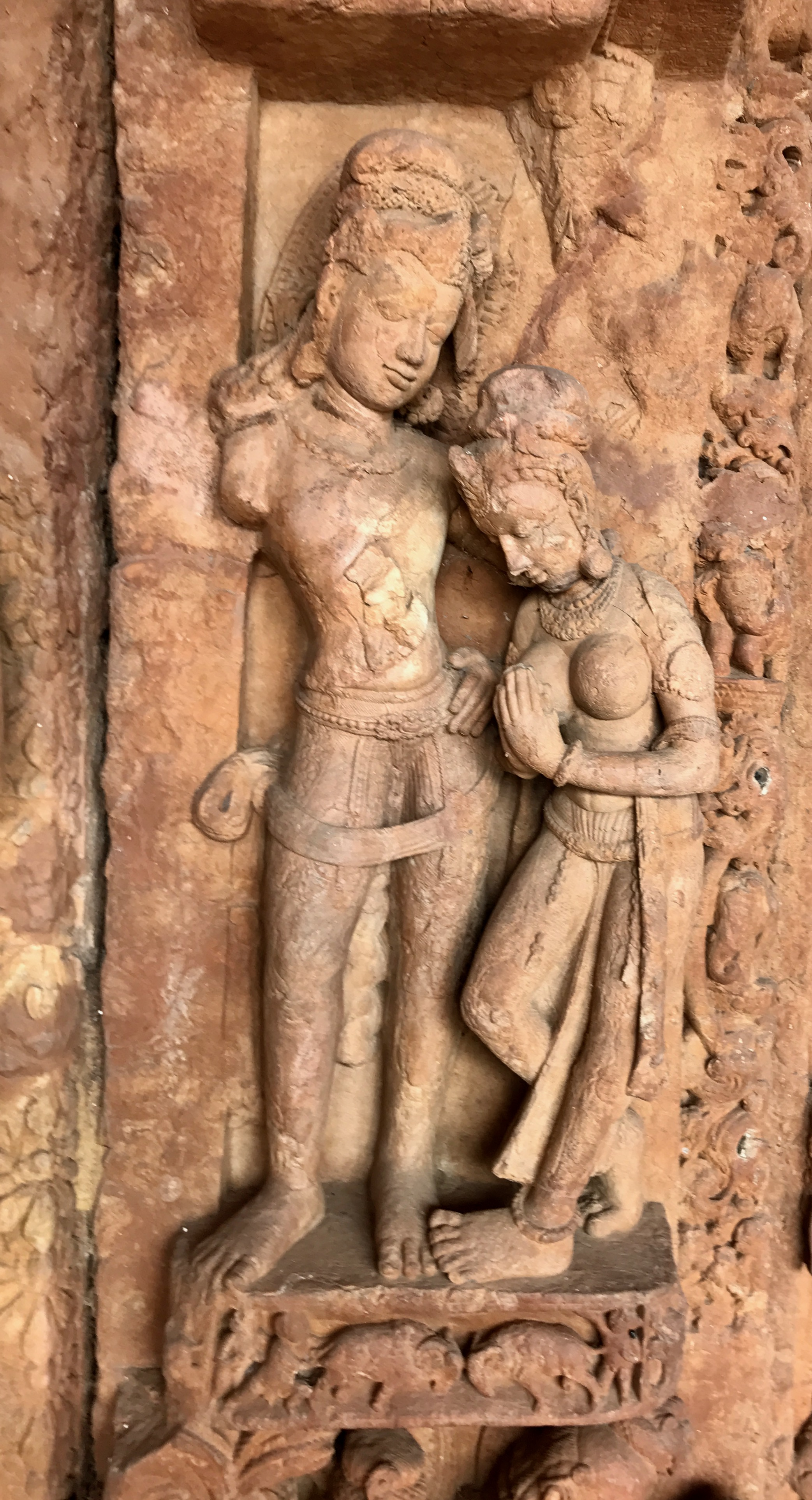 Sirpur, also referred in medieval era texts as Shripur (city of wealth), is a town on the banks of Mahanadi in Chhattisgarh. The site became archaeologically significant after a visit and report on a Laxman (Lakshmana) temple in 1872 by Alexander Cunningham, a colonial British India official. Sirpur is mentioned in the memoirs of the Chinese traveler Hieun Tsang as a location of monasteries and temples. The site has been significant for its temple ruins of Rama and Lakshmana of the Ramayana fame. The site excavations after 1960, particularly after 2003, have yielded 22 Shiva temples, 5 Vishnu temples, 10 Buddha Viharas, 3 Jain Viharas, a 6th/7th century market and snana-kund (bath house). The site shows extensive syncretism, where Buddhist and Jain statues or motifs intermingle with Shiva, Vishnu and Devi temples. The region was conquered and plundered by the armies of Delhi Sultanate and later Deccan Sultanates. The town and temples were damaged in the wars and were abandoned. Dense vegetation grew over it and floods deposited silt. 20th and 21st century excavations have unearthed many monuments. The site is large and artwork stick out of farmlands and dirt roads in and near Sirpur.